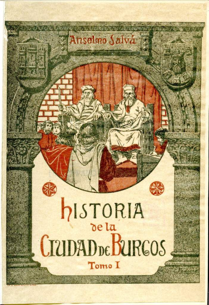 Historia de la ciudad de Burgos, 1914, tomo I, portada Mariano Pedrero, Biblioteca de la Diputación Provincial de Burgos